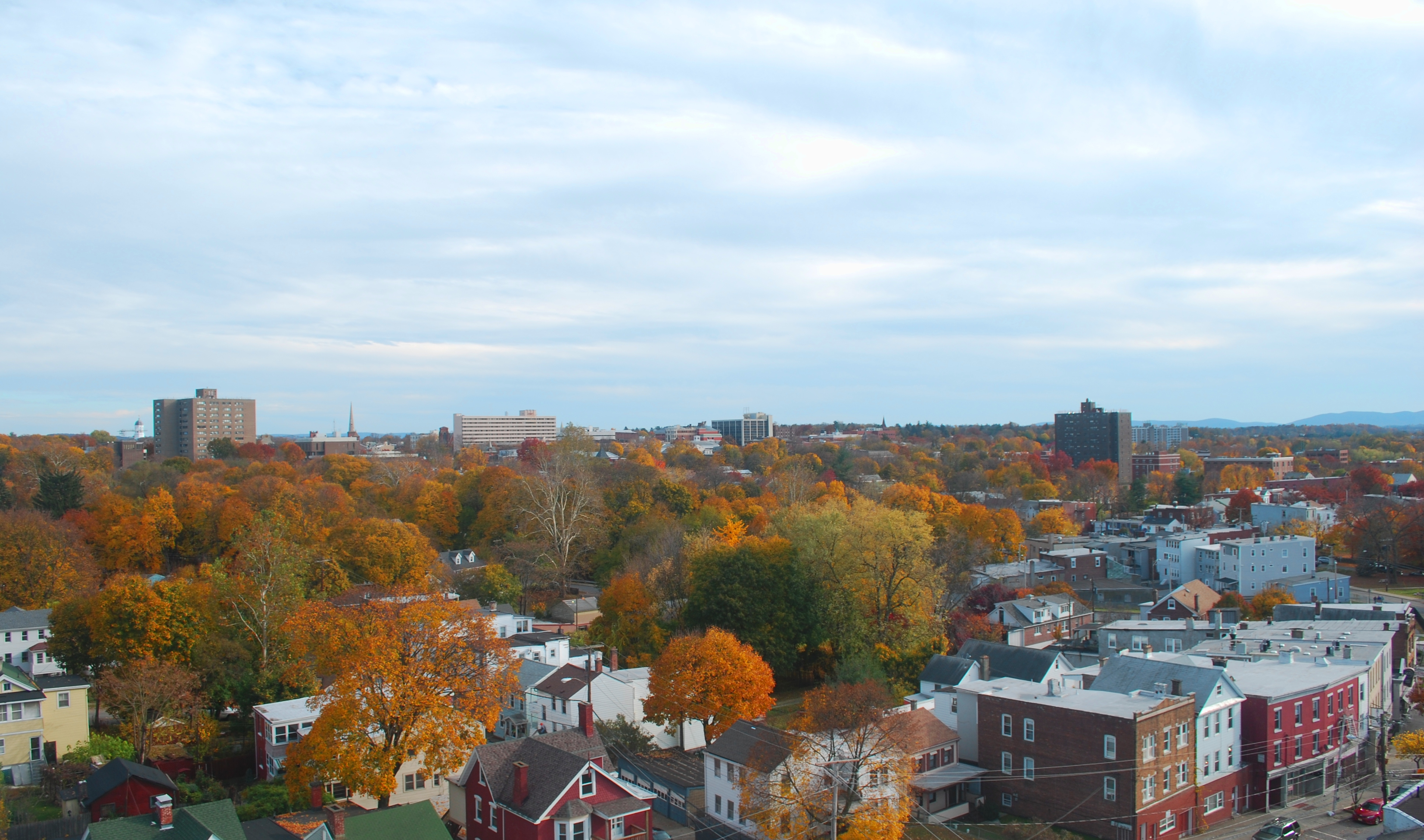 Bird's-eye view of Poughkeepsie, from the Walkway Over the Hudson River.